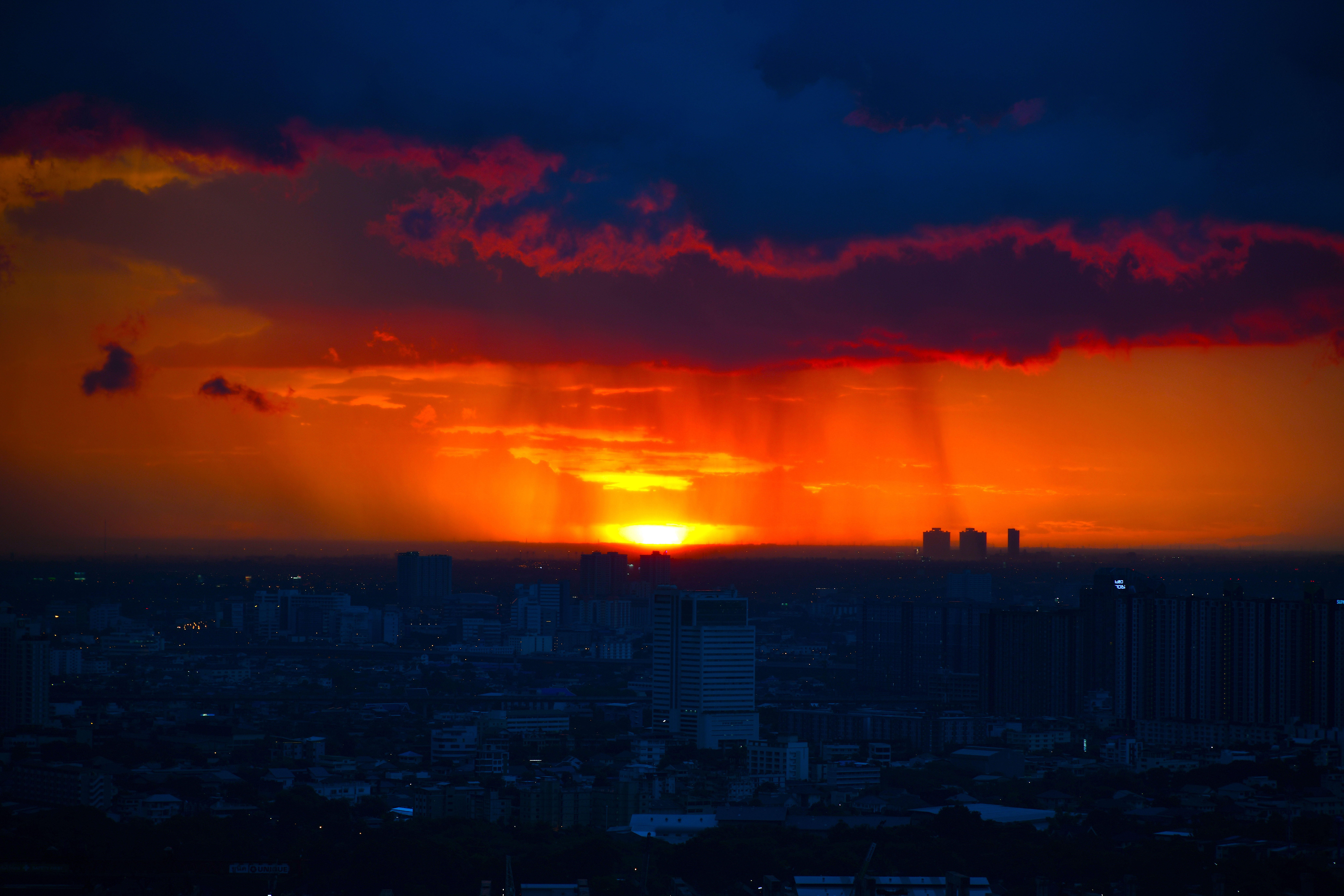 Sunset in Thailand June 2018 Look like Nuclear Bomb in Sci-Fi Movie